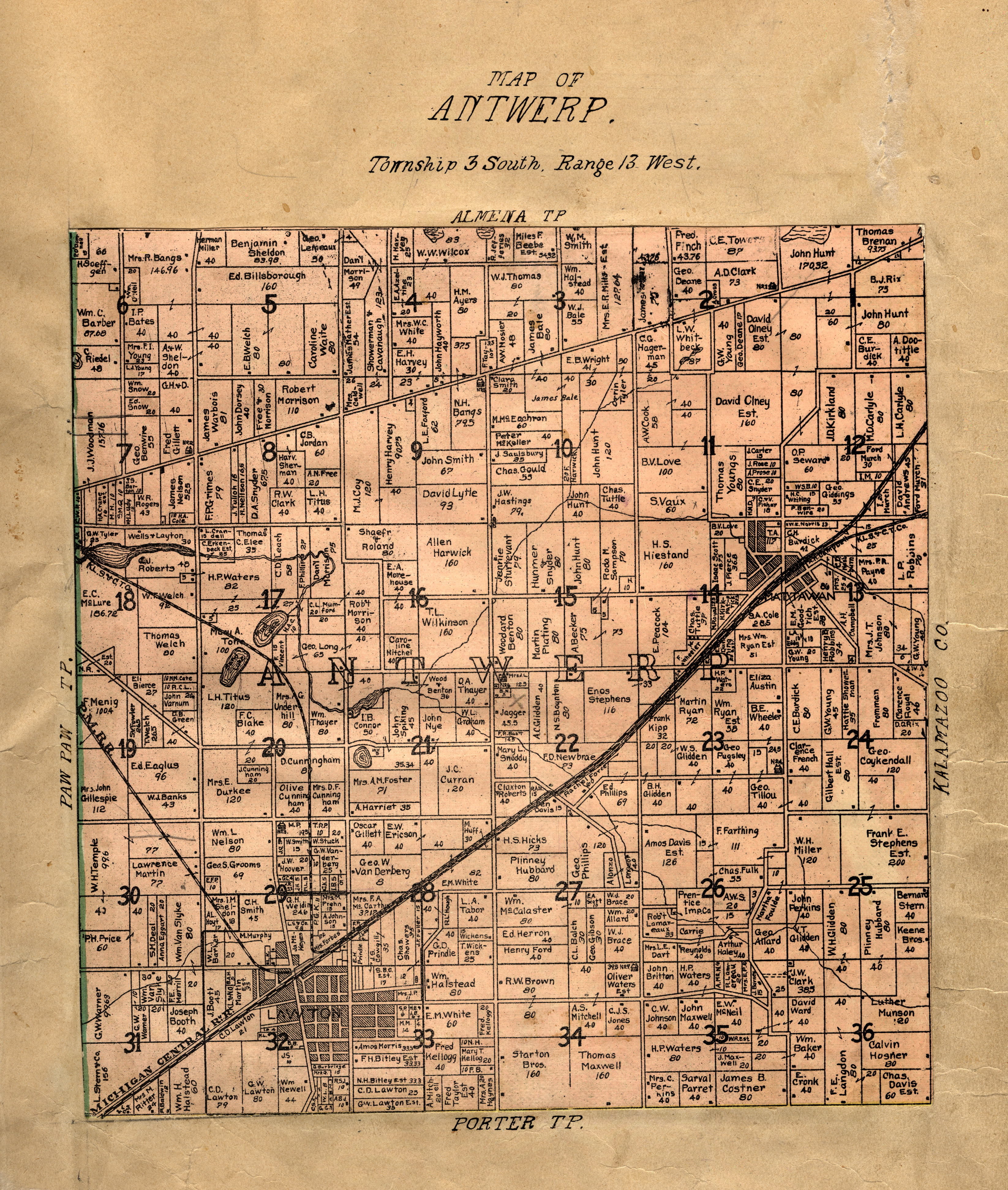 Digital scan of the Antwerp Township portion of a larger 1906 map of Van Buren County, Michigan. The county map was cut into township-sized pieces, and the pieces were later found pasted into an 1895 atlas of Van Buren County, now in the collection of the Michigan State University Map Library. Each township map cut from the 1906 county map was pasted onto a blank page opposite the map of the corresponding township in the 1895 county atlas. Shows parcel boundaries and names of property owners, Public Land Survey System township and section numbering, roads, railroads, residences, schools, churches, municipalities, and water features. Print version was cut from map: Orton, M. K. A farm map of Vanburen County, Michigan / compiled from official records and local inspection by W.H. Goss, County Surveyor ; drawn by M.K. Orton. Rockford, Ill. : W.W. Hixson, [1906]. MSU Libraries catalog record